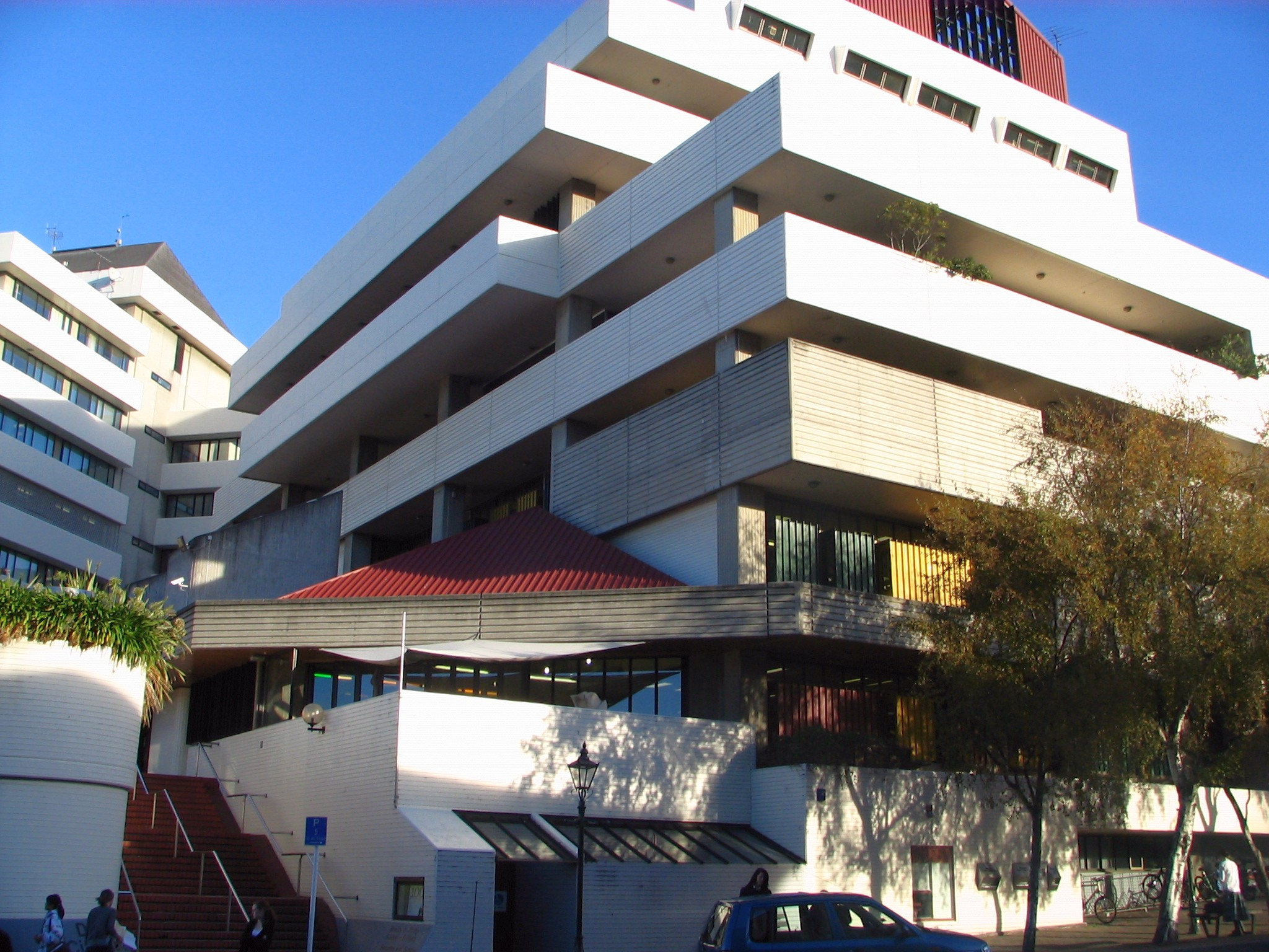 Exterior view of Dunedin Public Libraries City Library, Dunedin, New Zealand. Own photo taken from Moray Place, looking southwest